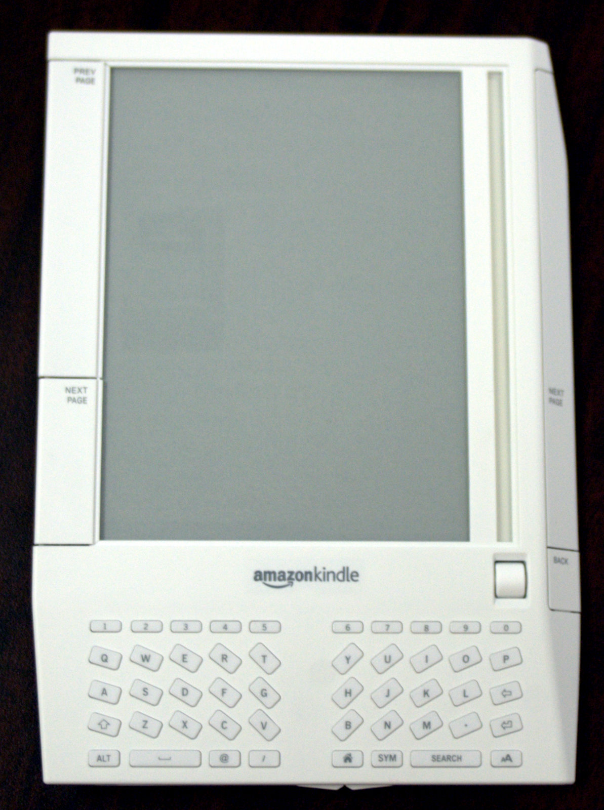 Amazon Kindle Powered Off